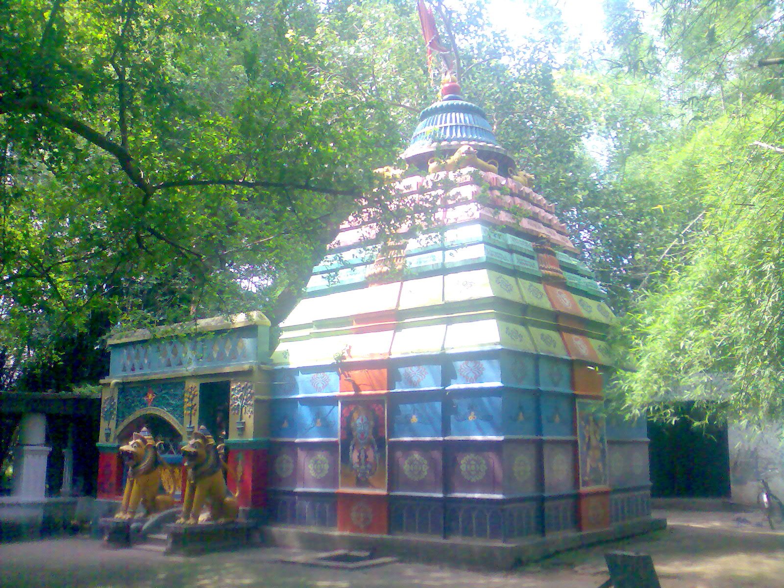 Maa Bhairabi temple is situated at Purunakatak in Boudh District,known as “Devi Bhairabi Pitha”. Maa is the Presiding deity or ISTADEVI of Boudh